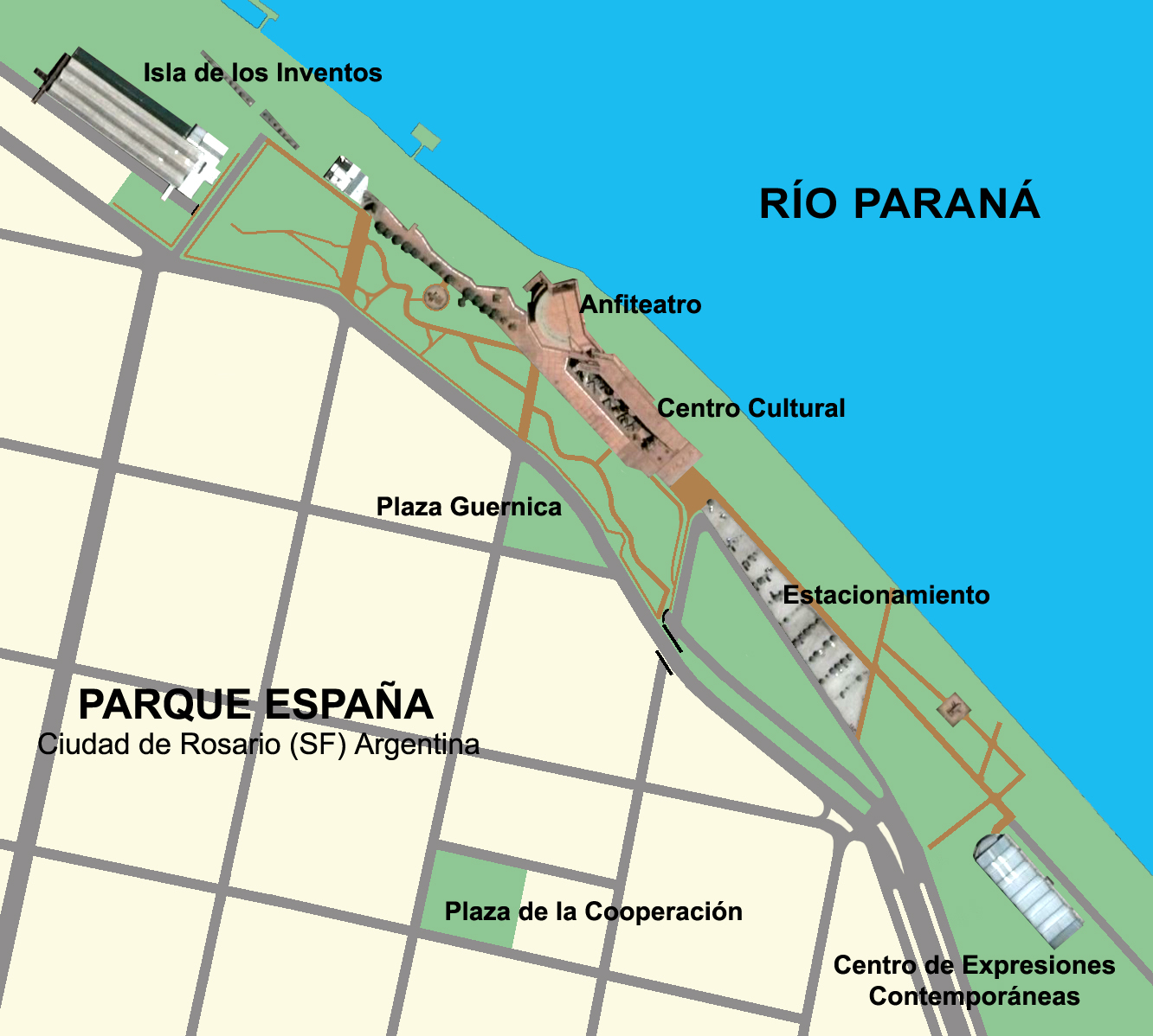 Esquematic map of the Urquiza Park, in the Rosario city, Argentine.